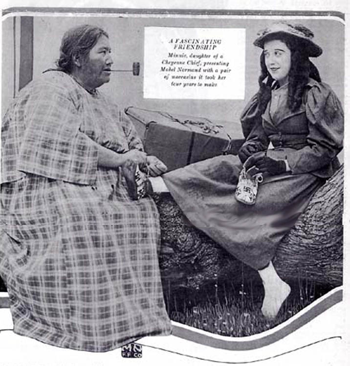 Minnie Devereaux and Mabel Normand on the cover of the Mack Sennett Weekly, vol. I, February 12, 1917